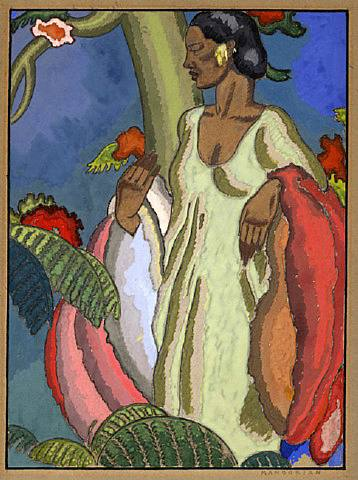 The Lei Seller, gouache on paper by Arman Manookian